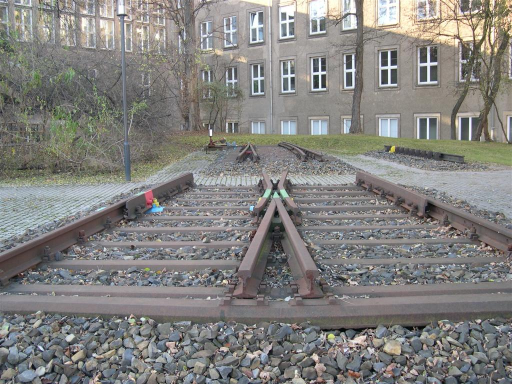 Railroad Track profile, Dresden University of Technology